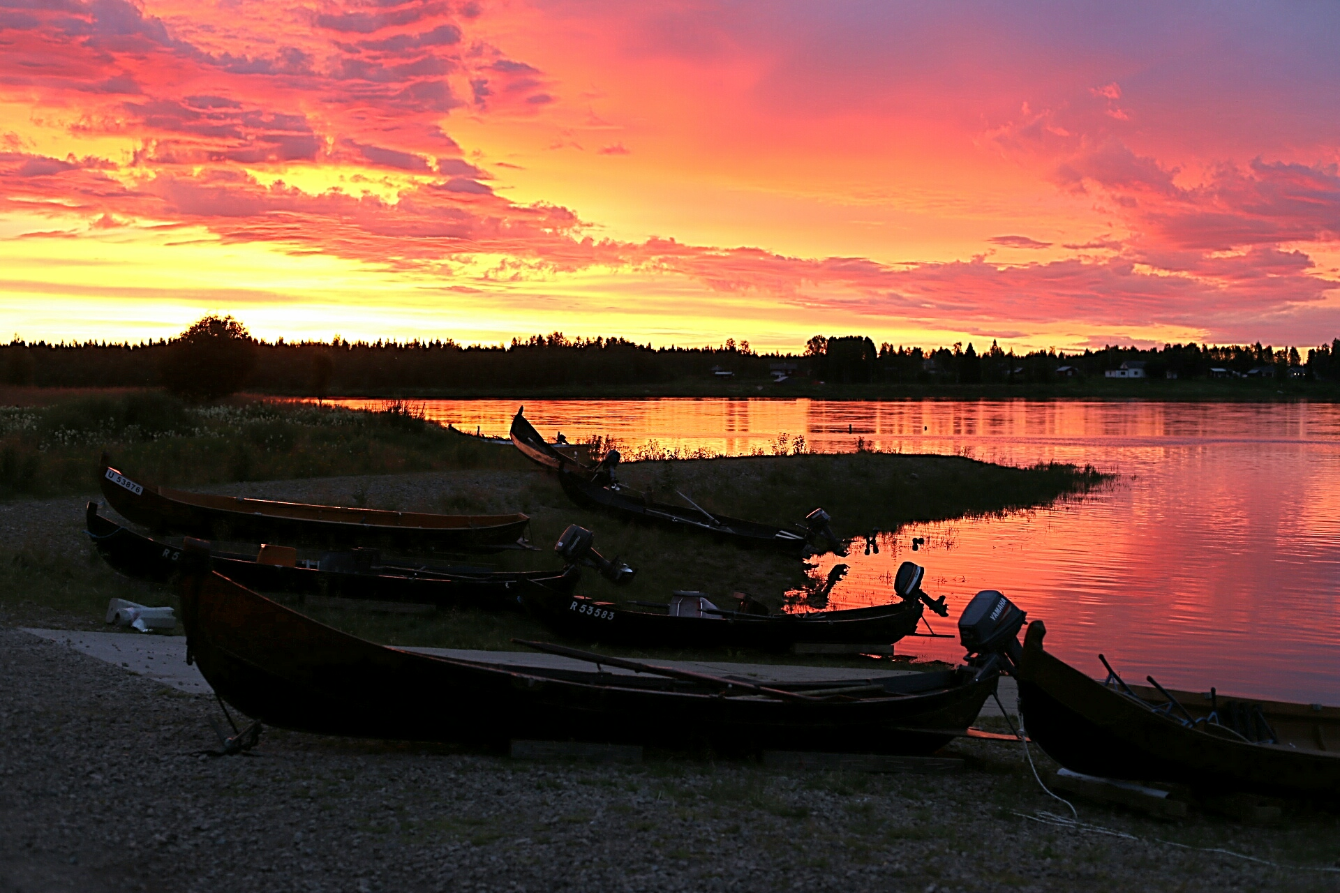 Tornionjoki is a river between Swedish and Finnish borders. Picture from the vilage of Pello, Lappland.